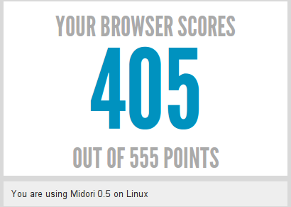 HTML5 Score for midori web browser running on linux.